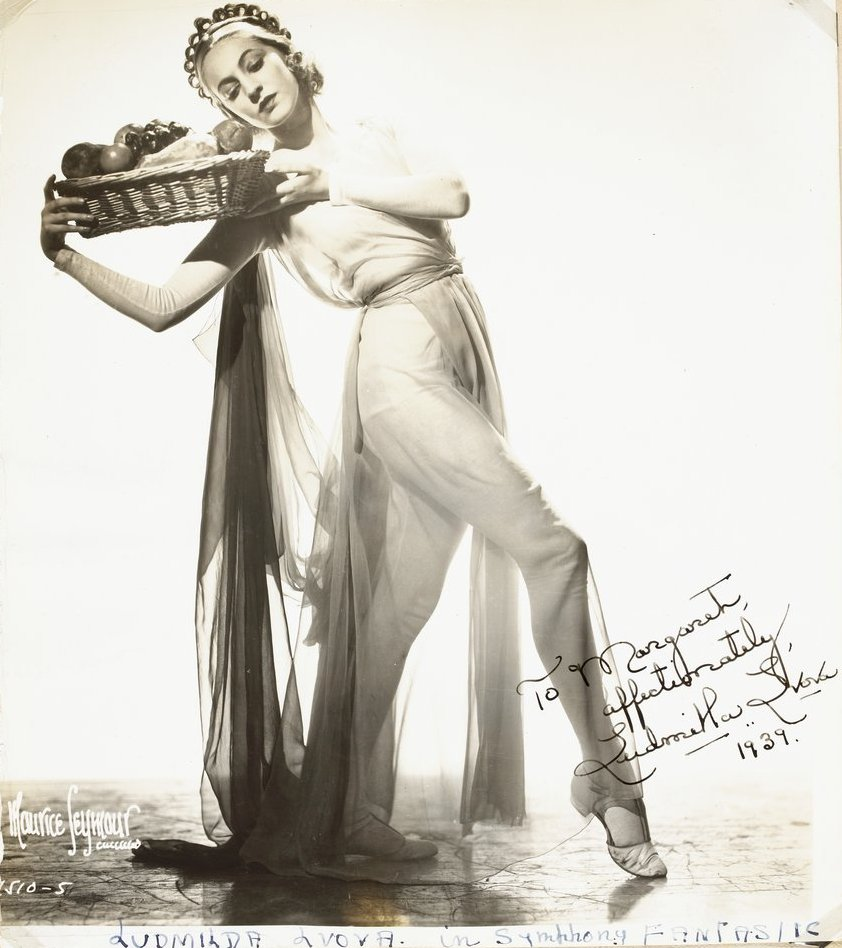 A studio shot showing the dancer in costume, holding a basket of fruit. Inscribed and dated in ink: To Margaret, affectionately, Ludmilla Lvova 1939. The Ballets russes Australian season was from 30th December 1939 to 19 September 1940.